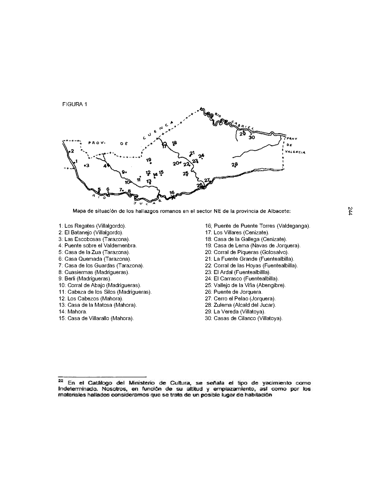 Roman sites in the province of Albacete